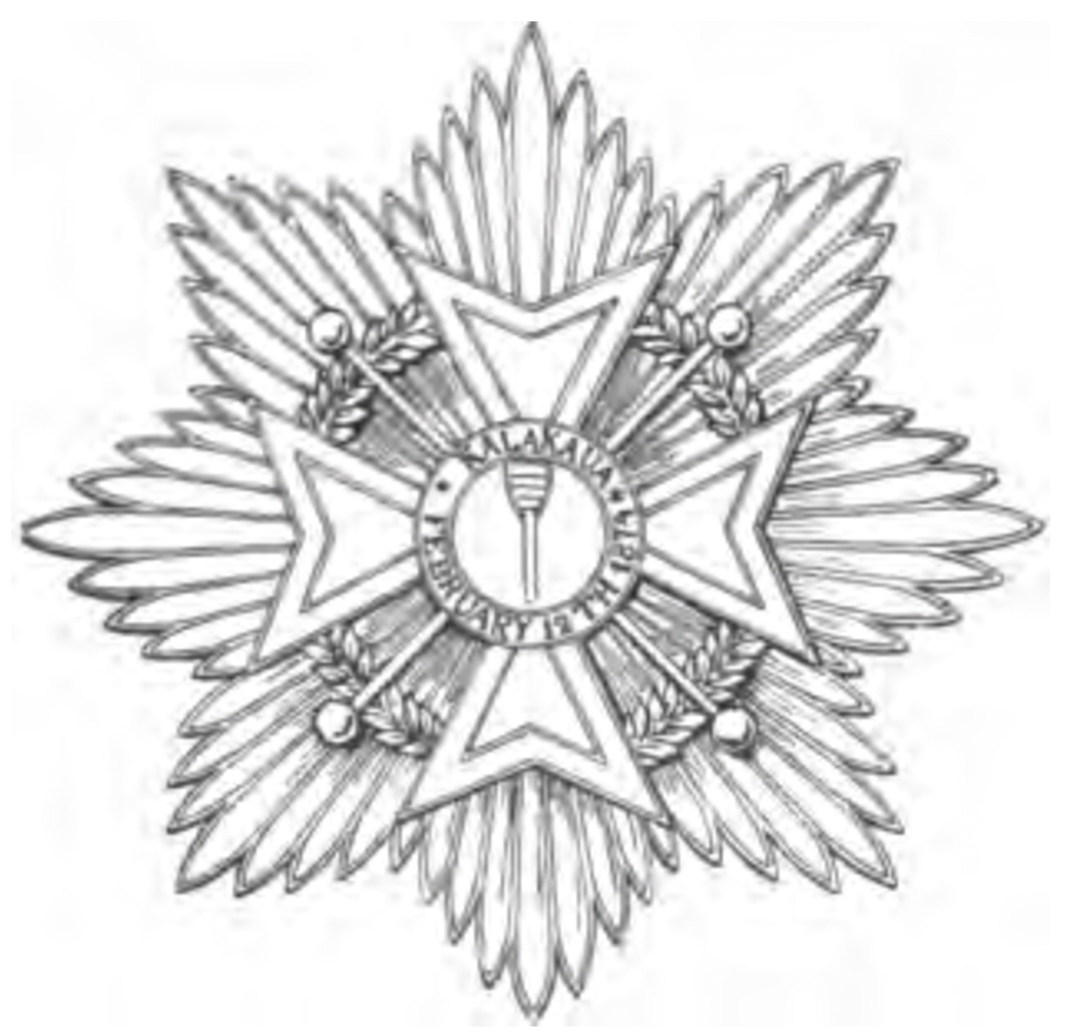 Star and ribbon of the Order of Kalākaua.